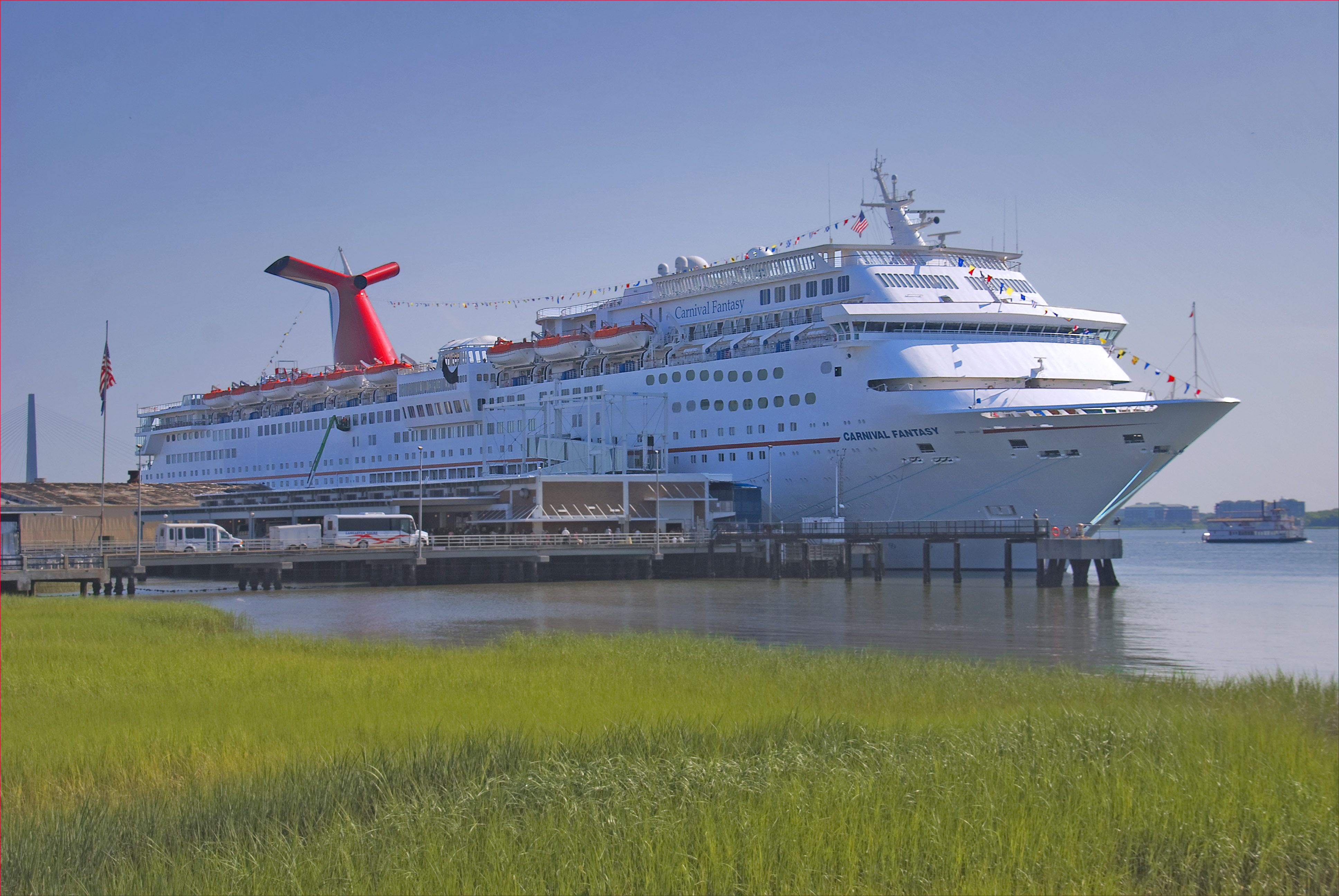 Carnival Fantasy docked at Charleston, South Carolina. Image by Ron Cogswell on July 10, 2012, using a Nikon D80 and minor Photoshop effects. DSC_0136